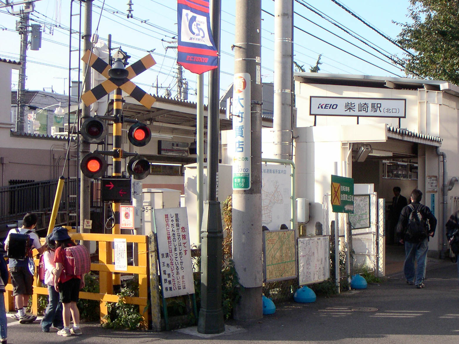 North exit of Shibasaki Station, Keio Line, Tokyo, Japan